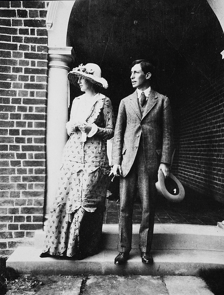 Engagement photograph, Virginia and Leonard Woolf, 23 July 1912, a month before their wedding. Photograph taken at Dalingridge Place, the Sussex home of Virginia’s half-brother, George Duckworth